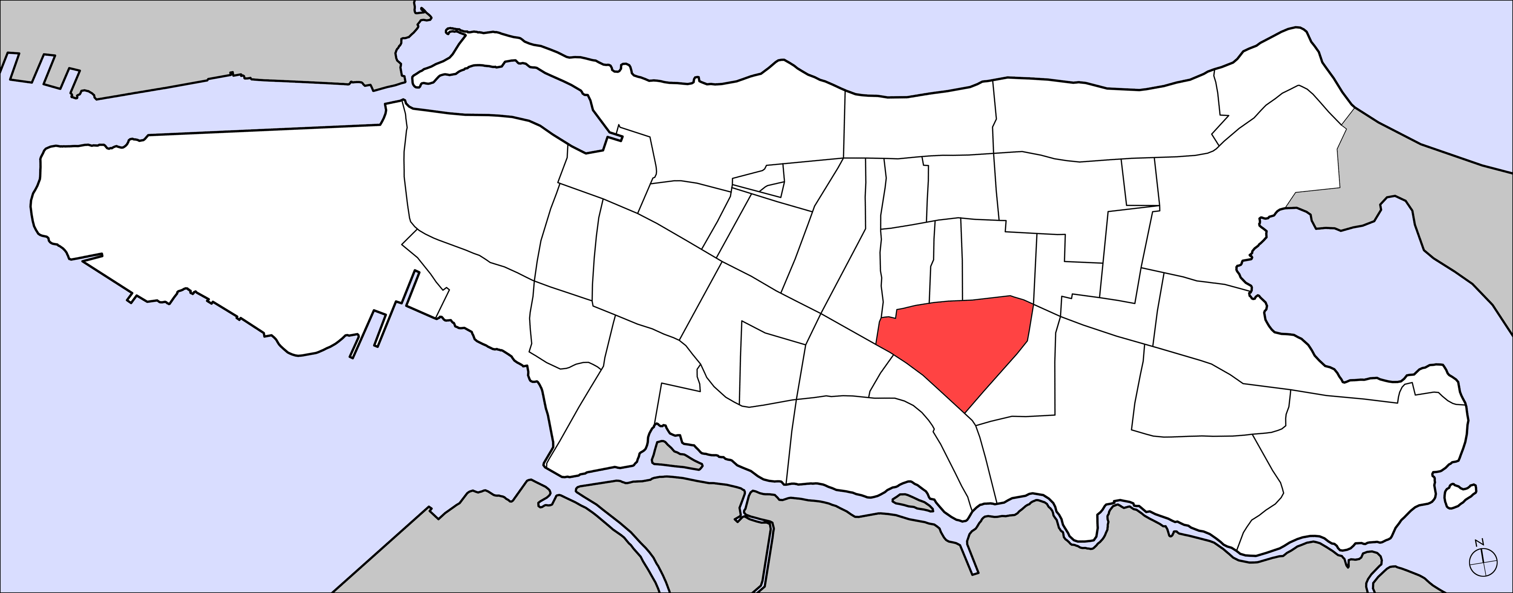 Map of SagradoCorazón (San Juan, Puerto Rico)